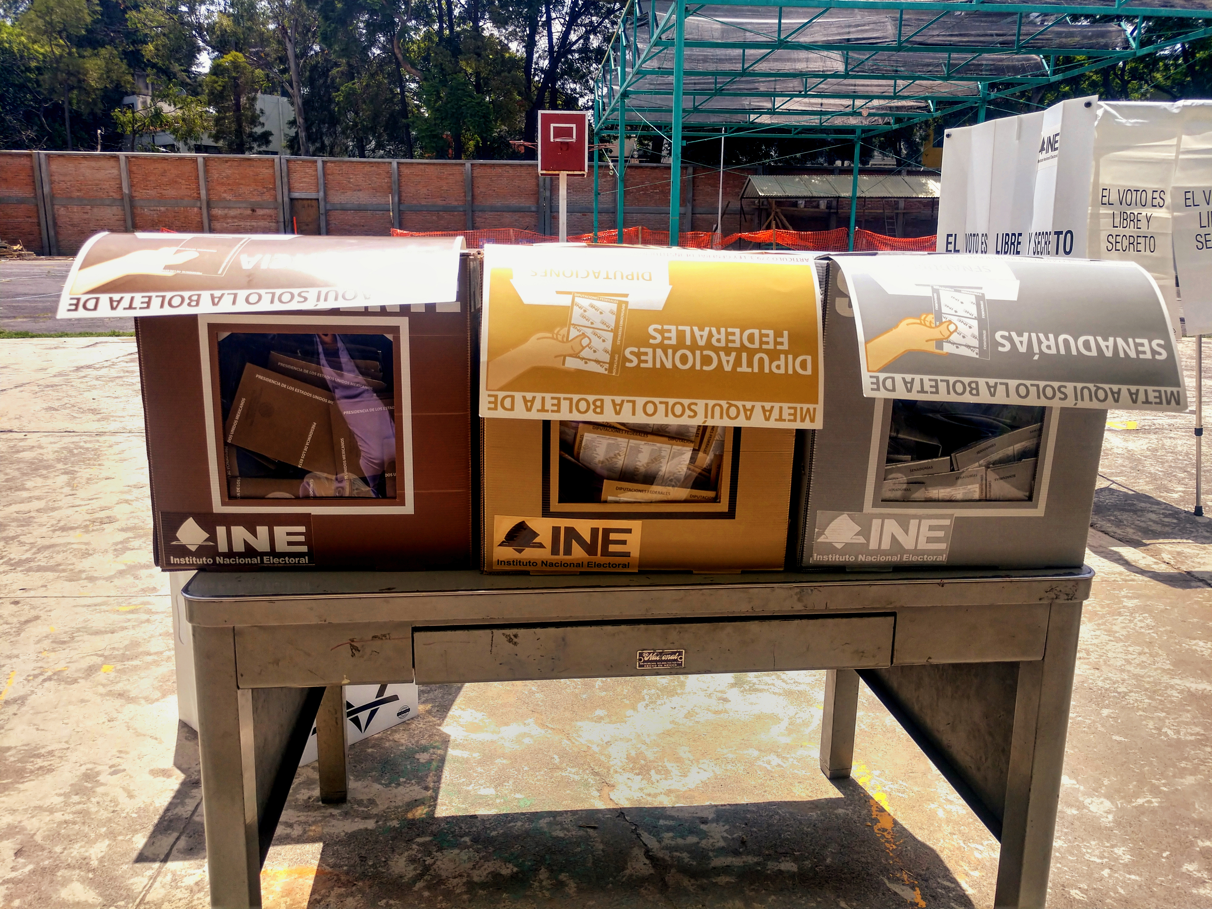 People voting in the Mexico General Election, July 1st, 2018. Mexico City, Mexico.